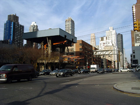 Looking north along Second Avenue at Roosevelt Island Tramway, Manhattan Side. Photographed by Jason Jacob Northway in December, 2004